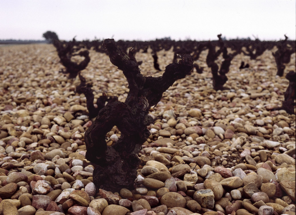 A vine in Châteauneuf-du-Pape